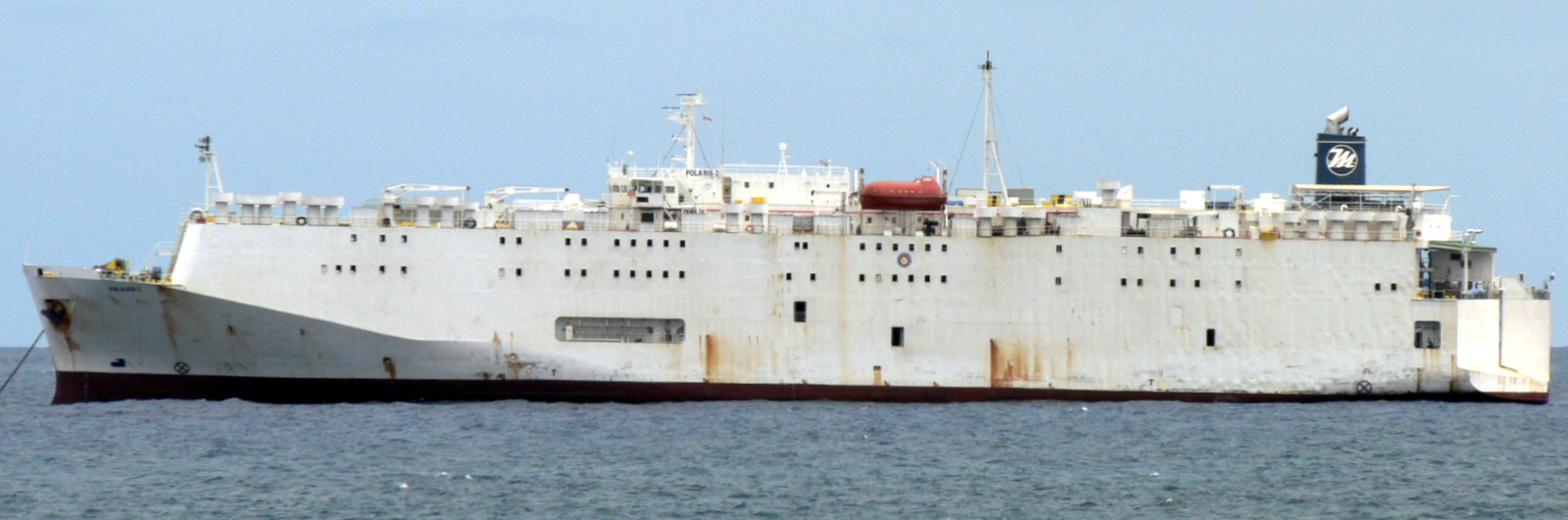 Livestock vessel Polaris 2 anchoring at Las Palmas de Gran Canaria on 2013-06-11+01, seen from the seaside promenade near Parque de San Telmo